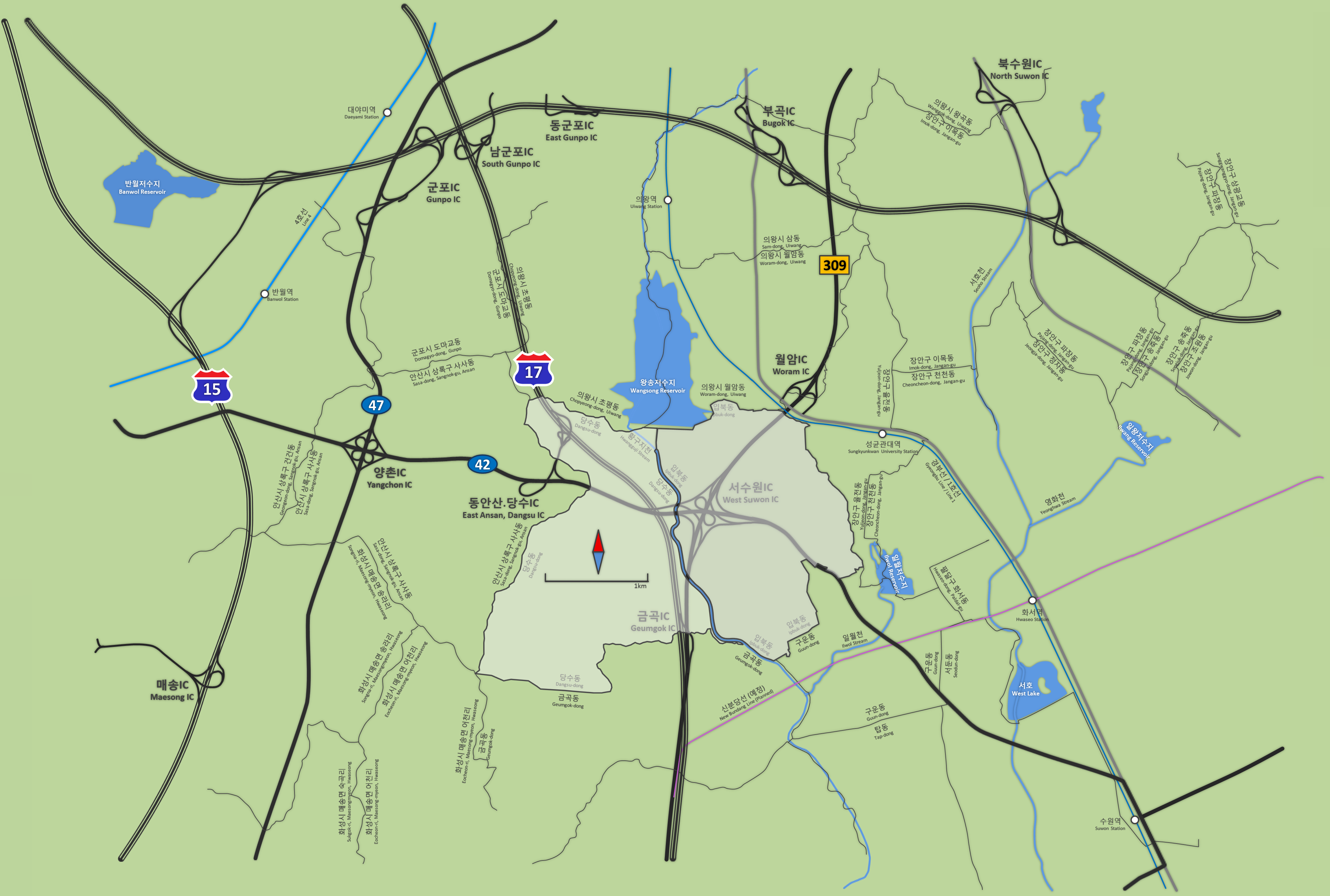 Map of Ipbuk-dong (not including Dangsu-dong)